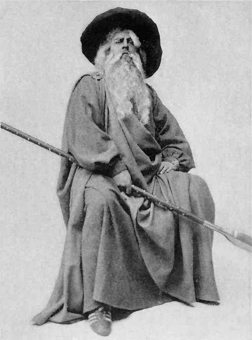 Captioned as "Odin disguised as a Traveller".